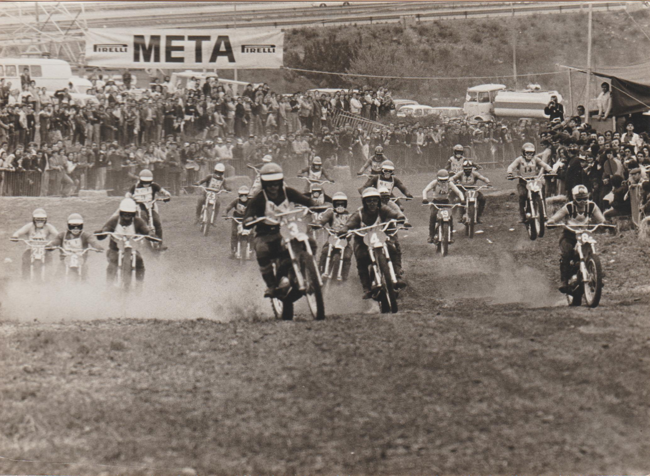 Start of the 1972 Esplugues Motocross. With the number 3, Domingo Gris.